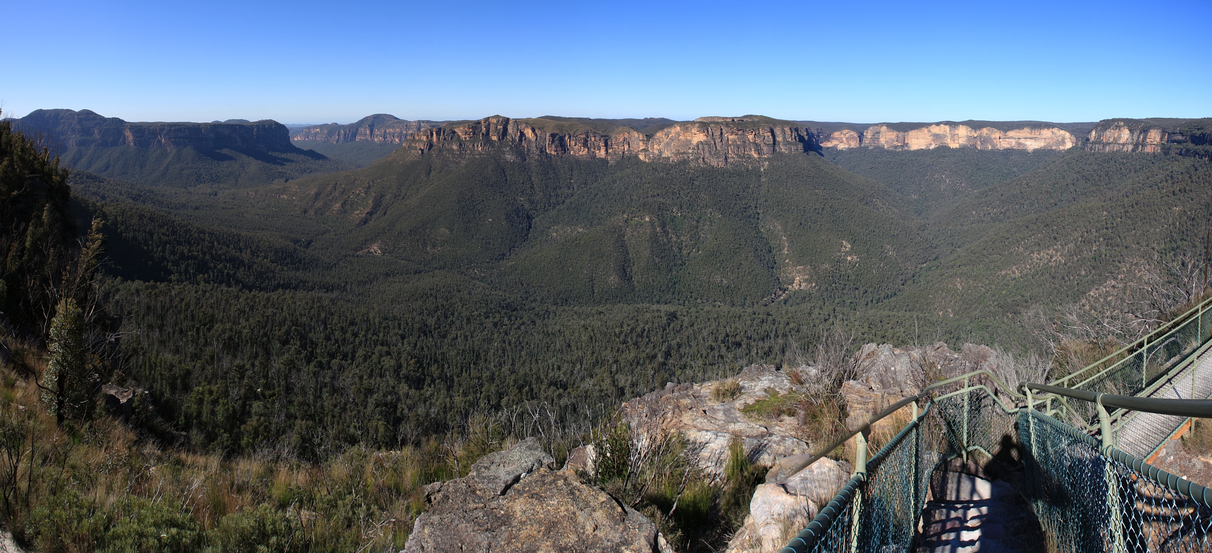 Gross Valley, New South Wales as seen from Pulpit Rock which is around the Blackheath, New South Wales area.